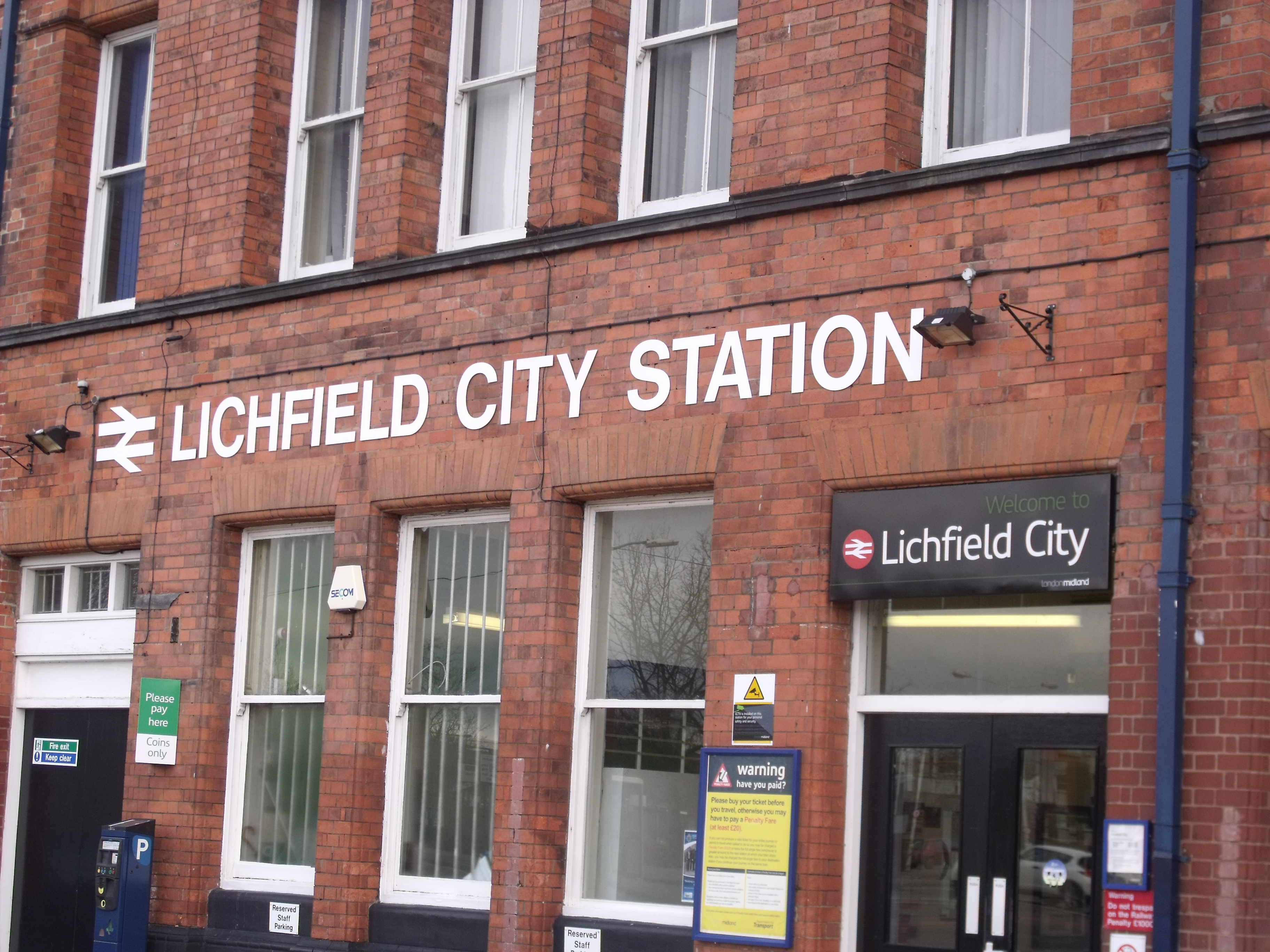 This is Lichfield City Station. It is on the Cross-City Line to Redditch via Birmingham New Street and Longbridge. I got my train here back to Kings Norton in the south of Birmingham. The station building from Birmingham Road.